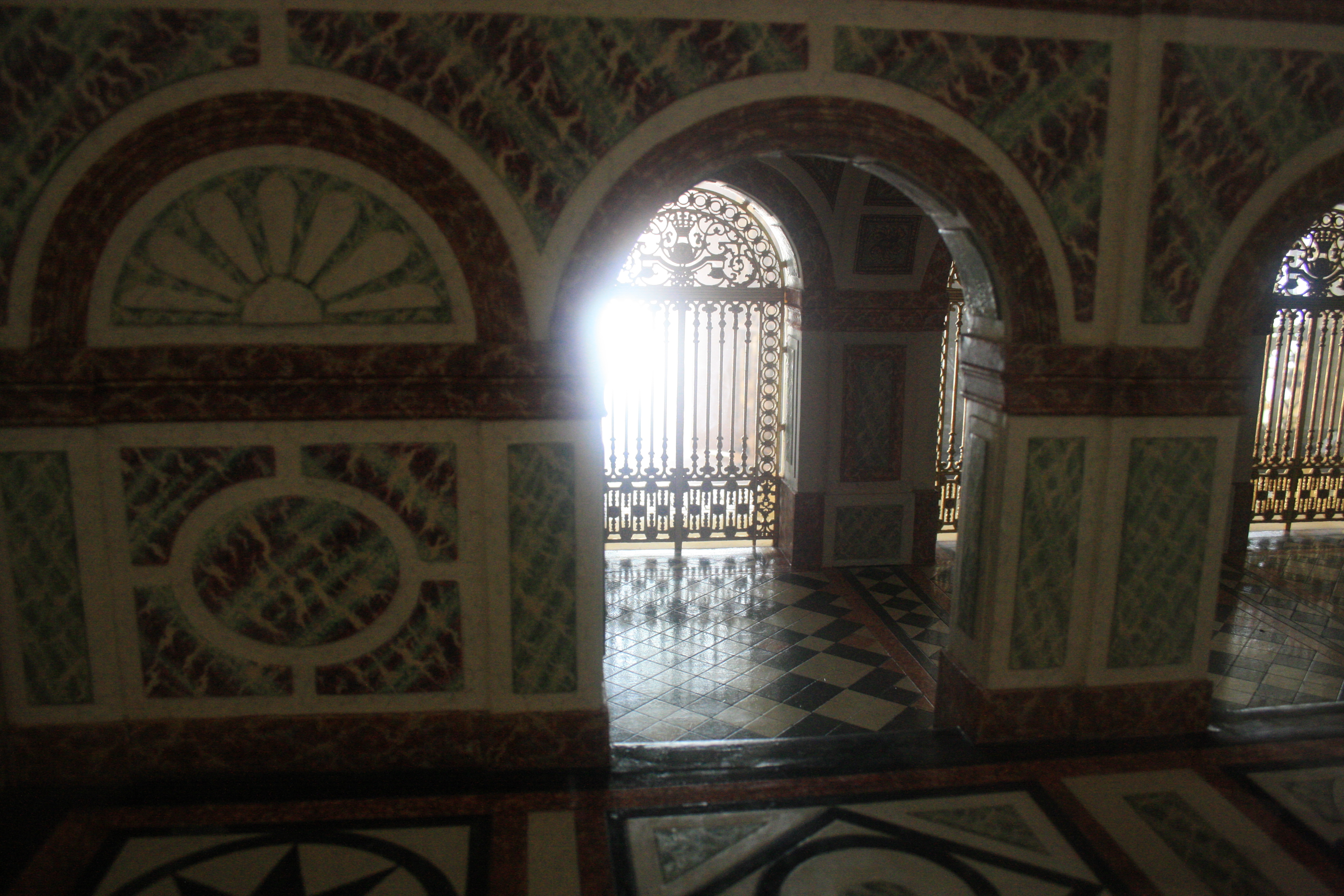 Model of the Escalier des Ambassadeurs (Staircase of the Ambassadors) in the Palace of Versailles in Versailles, France